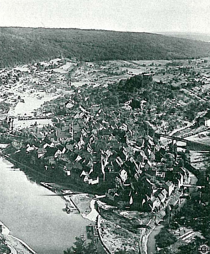 historical view of Neckargemünd